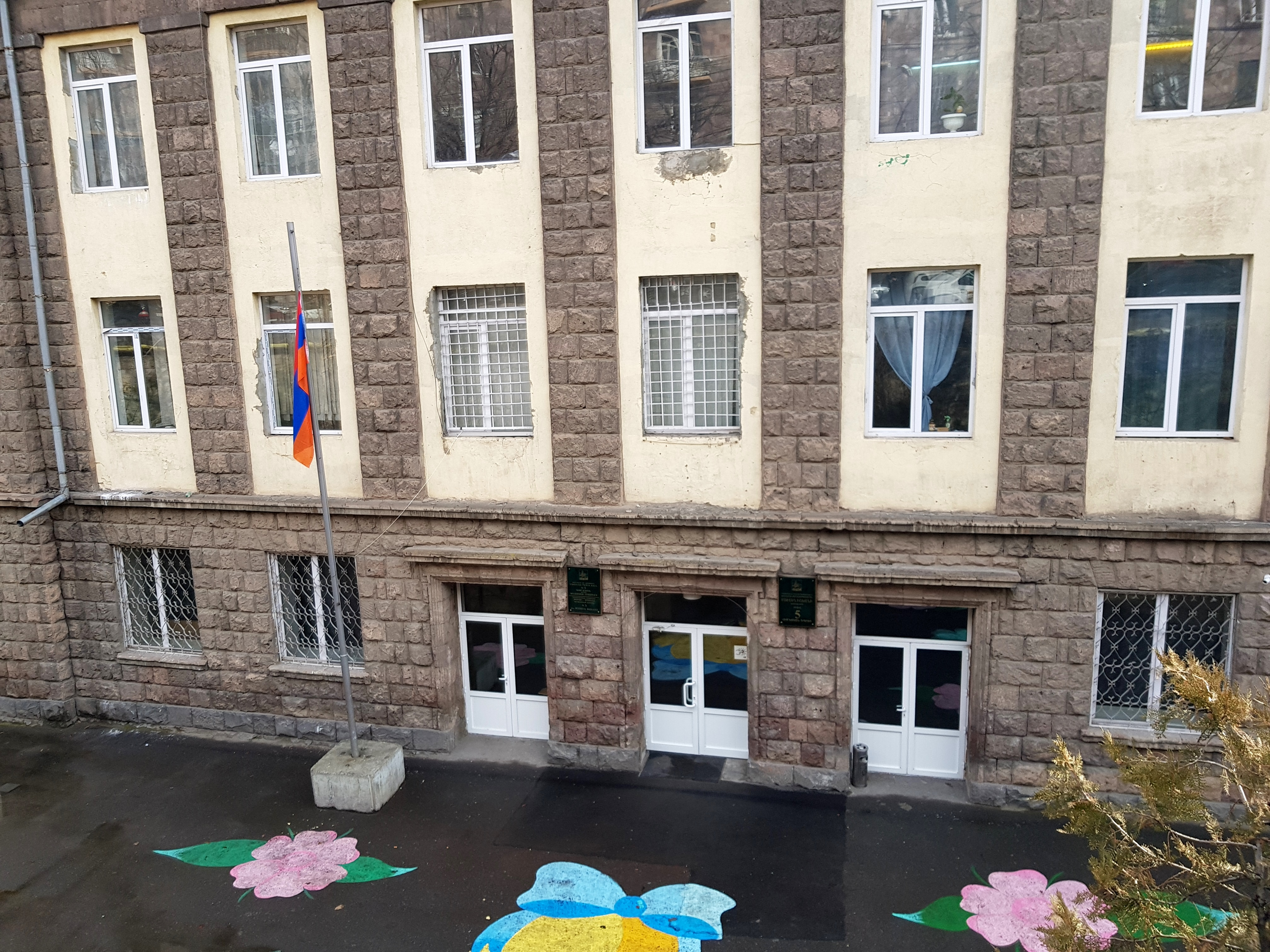 Mushegh Ishkhan School N 5 in Yerevan